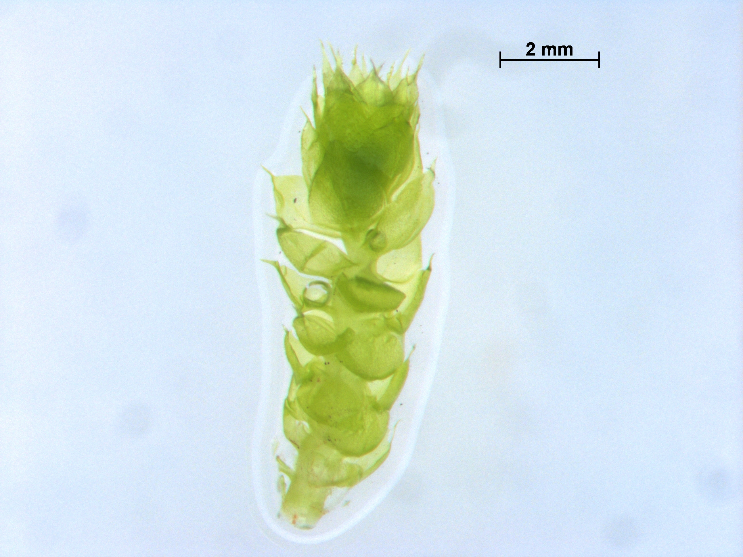 Young Gametophyte